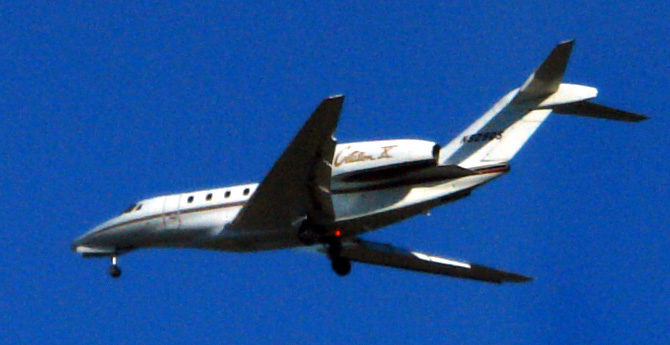 Cessna Citation X landing. Short final.